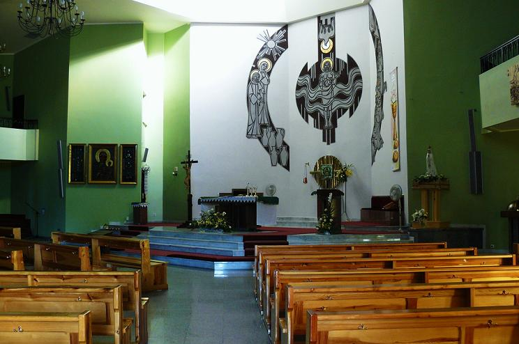 Poznan Lawica - church interior.